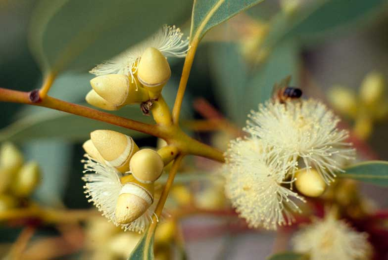 Flowers and buds of Eucalyptus flindersii in the Australian National Botanic Gardens